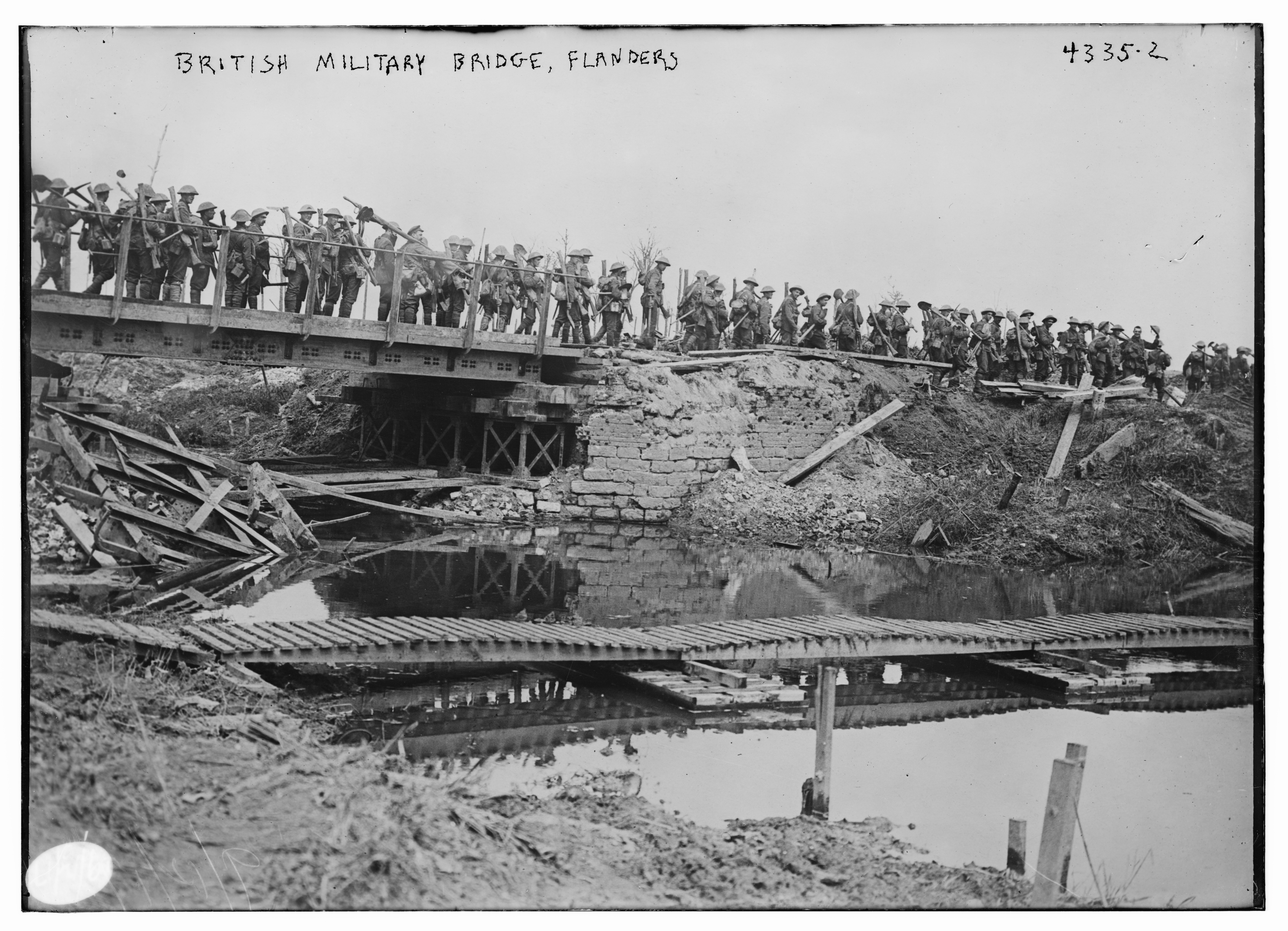 THE BATTLE OF PASSCHENDAELE, JULY-NOVEMBER 1917 part of "MINISTRY OF INFORMATION FIRST WORLD WAR OFFICIAL COLLECTION" (photographs) Made by: Brooks, Ernest (Lieutenant) (Photographer) 1917-08-05 British infantry crossing the bridge over the Yser canal at Boezinge, 5th August 1917. This bridge was constructed by the Royal Engineers after the British advance had passed the canal." Bain News Service,, publisher. British military bridge, Flanders [between ca. 1915 and ca. 1920] 1 negative : glass ; 5 x 7 in. or smaller. Notes: Title from unverified data provided by the Bain News Service on the negatives or caption cards. Forms part of: George Grantham Bain Collection (Library of Congress). Subjects: Flanders Format: Glass negatives. Repository: Library of Congress, Prints and Photographs Division, Washington, D.C. 20540 USA, General information about the Bain Collection is available at Higher resolution image is available (Persistent URL): Call Number: LC-B2- 4335-5